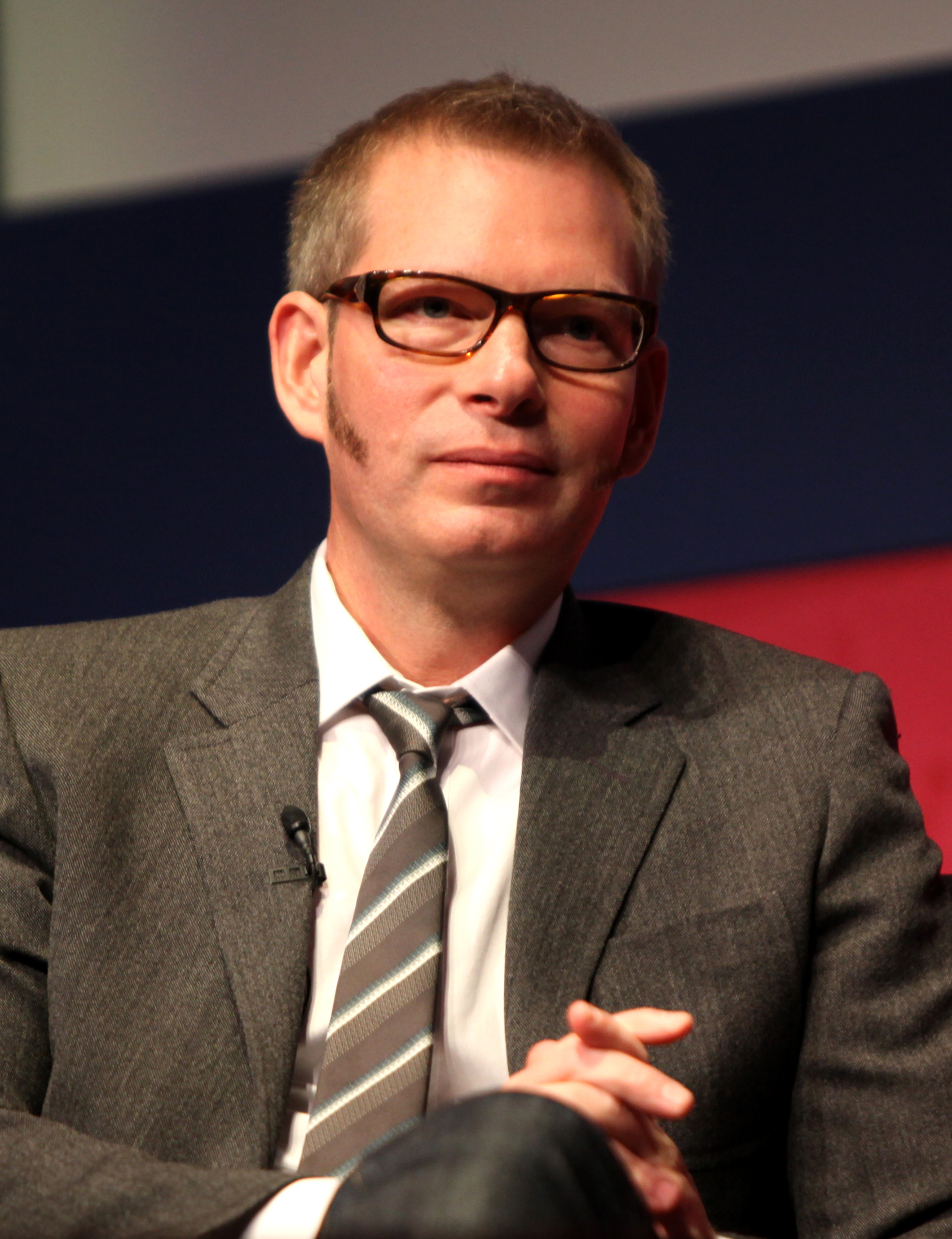 Matt Kibbe speaking at CPAC in Washington D.C. on February 9, 2012.